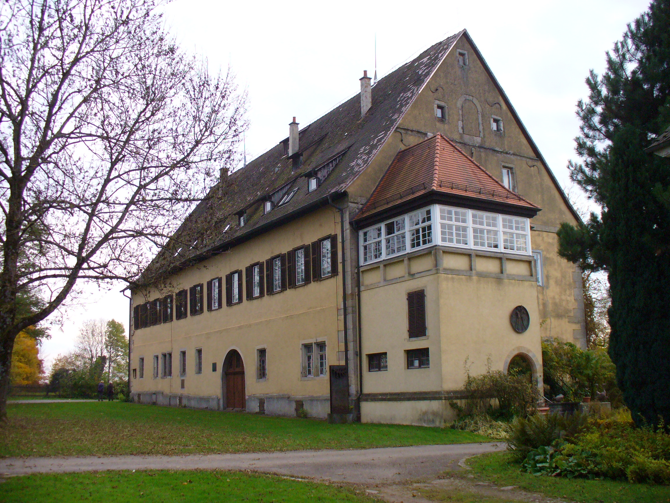 Adelberg Abbey, Prälatur